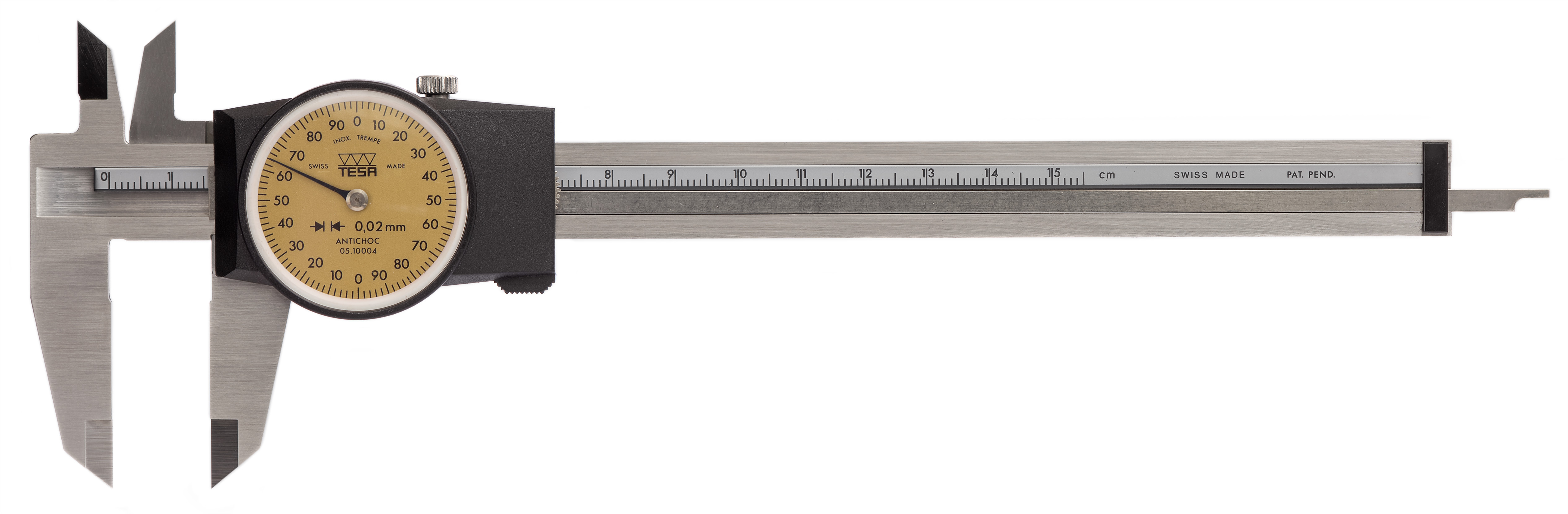 TESA CCMA-P 150 mm 0.02 mm dial caliper measuring 15.62 mm.